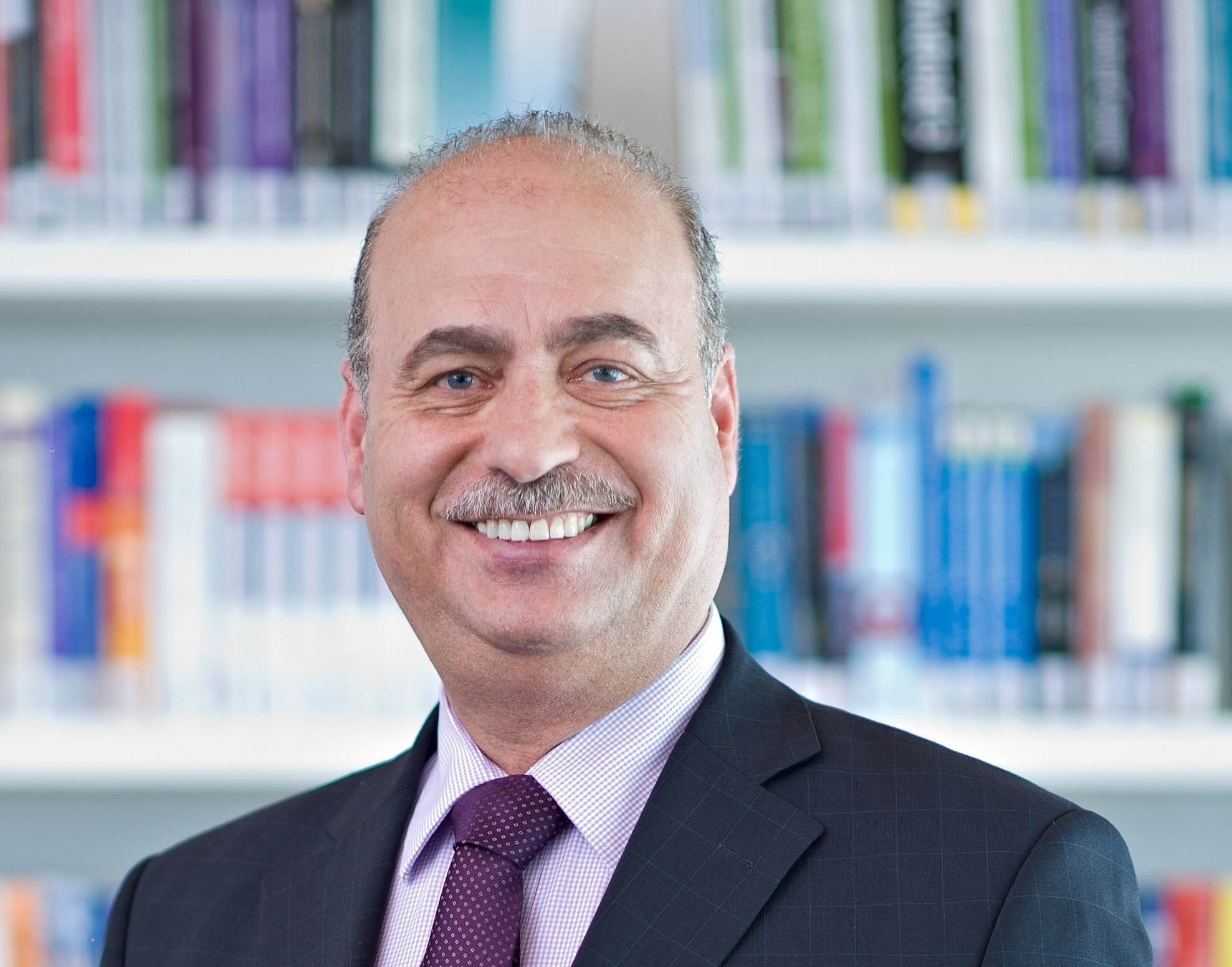 Professor Nidal Hilal